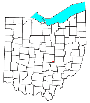 Locator map of the unincorporated community of Brownsville in Licking County, Ohio, United States.